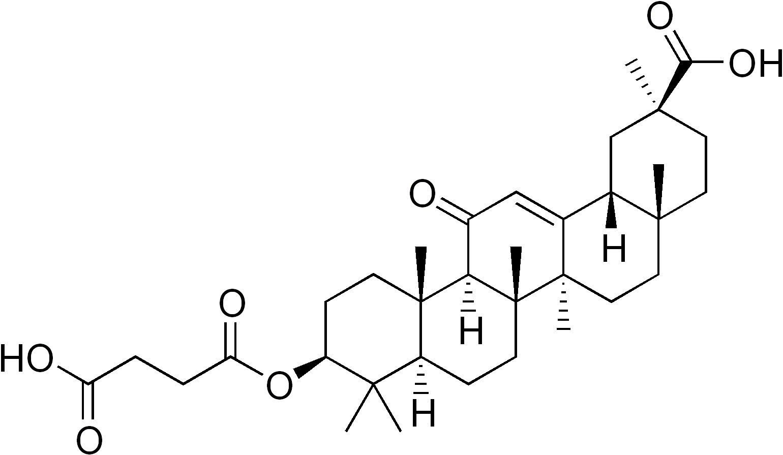 chemical structure of carbenoxolone